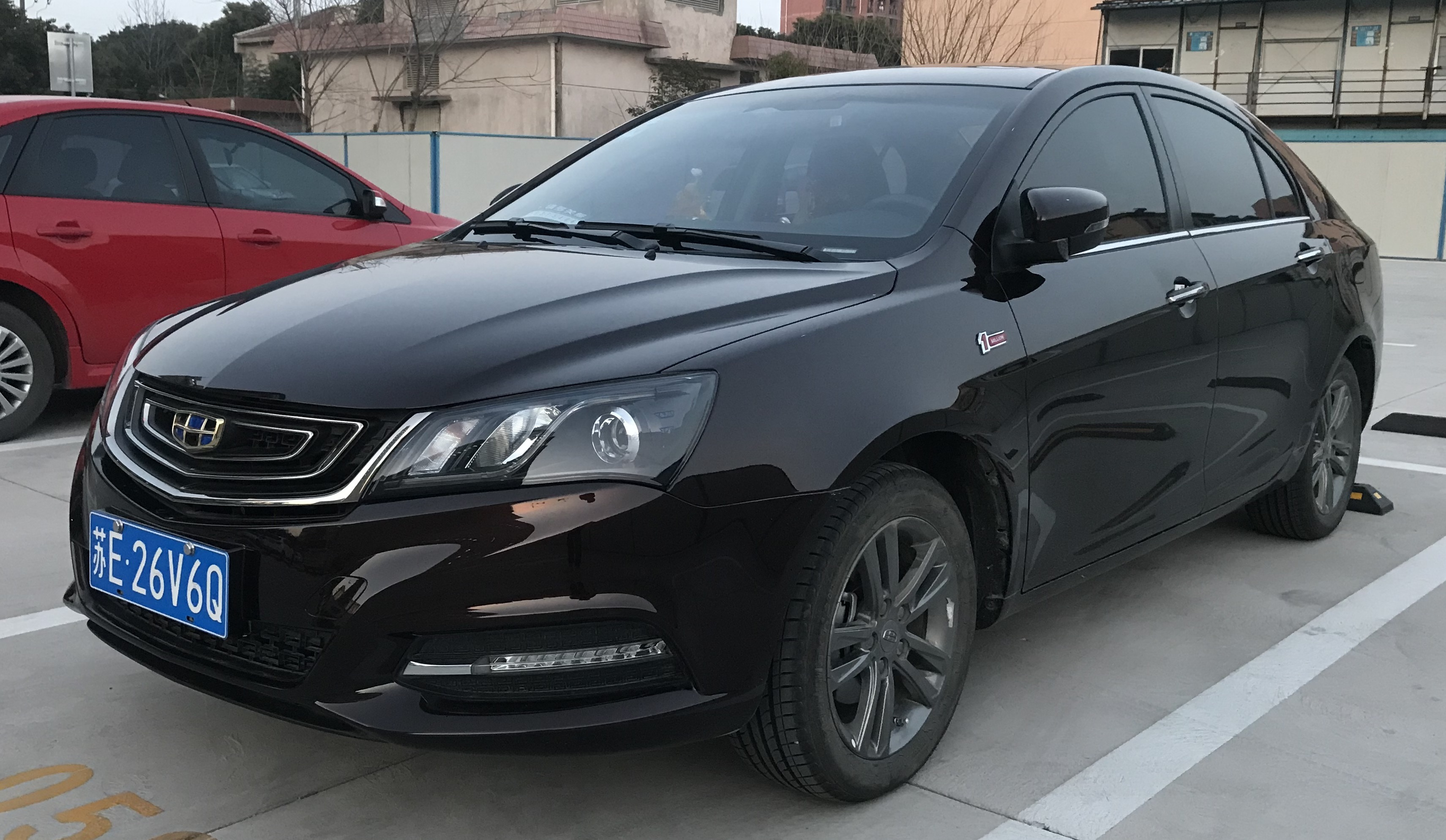 Early facelift of the Geely Emgrand EC7